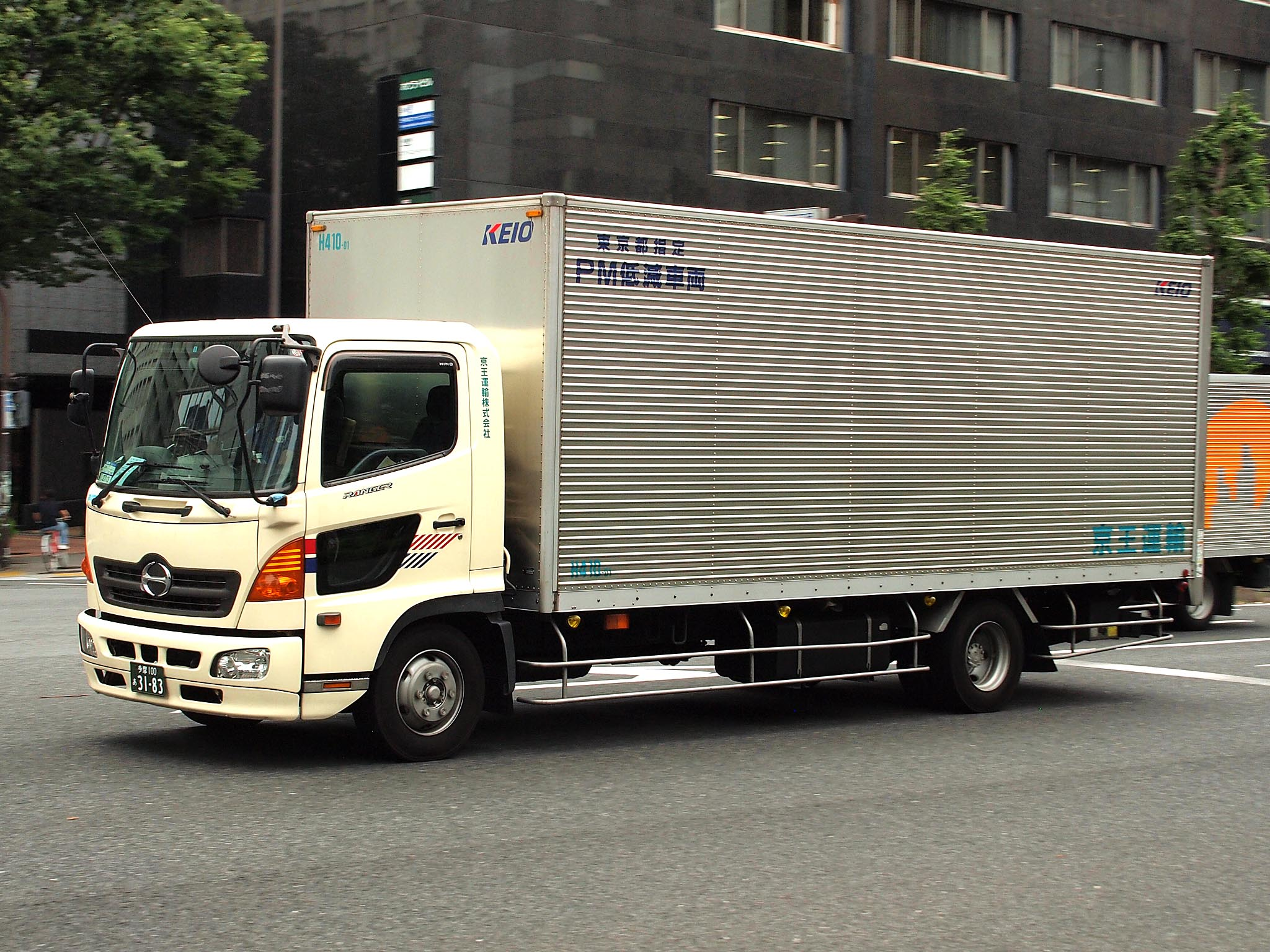 Fleet of Keio Unyu. Model: Hino Ranger License plate: TKT100 A3183 Place: Nishi-shinjuku, Shinjuku Ward, Tokyo Japan